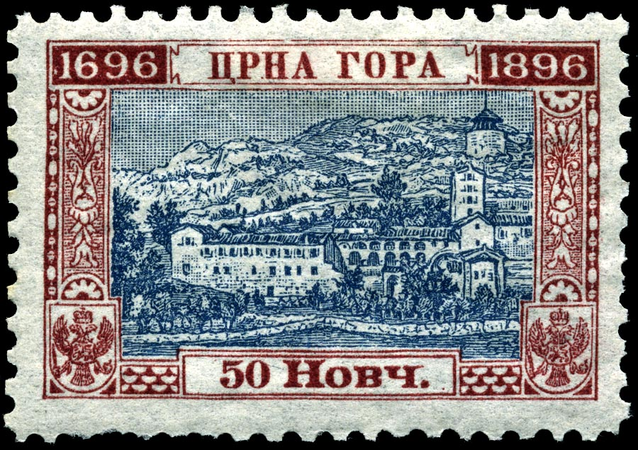 Montenegro 50n mausoleum stamp of 1896